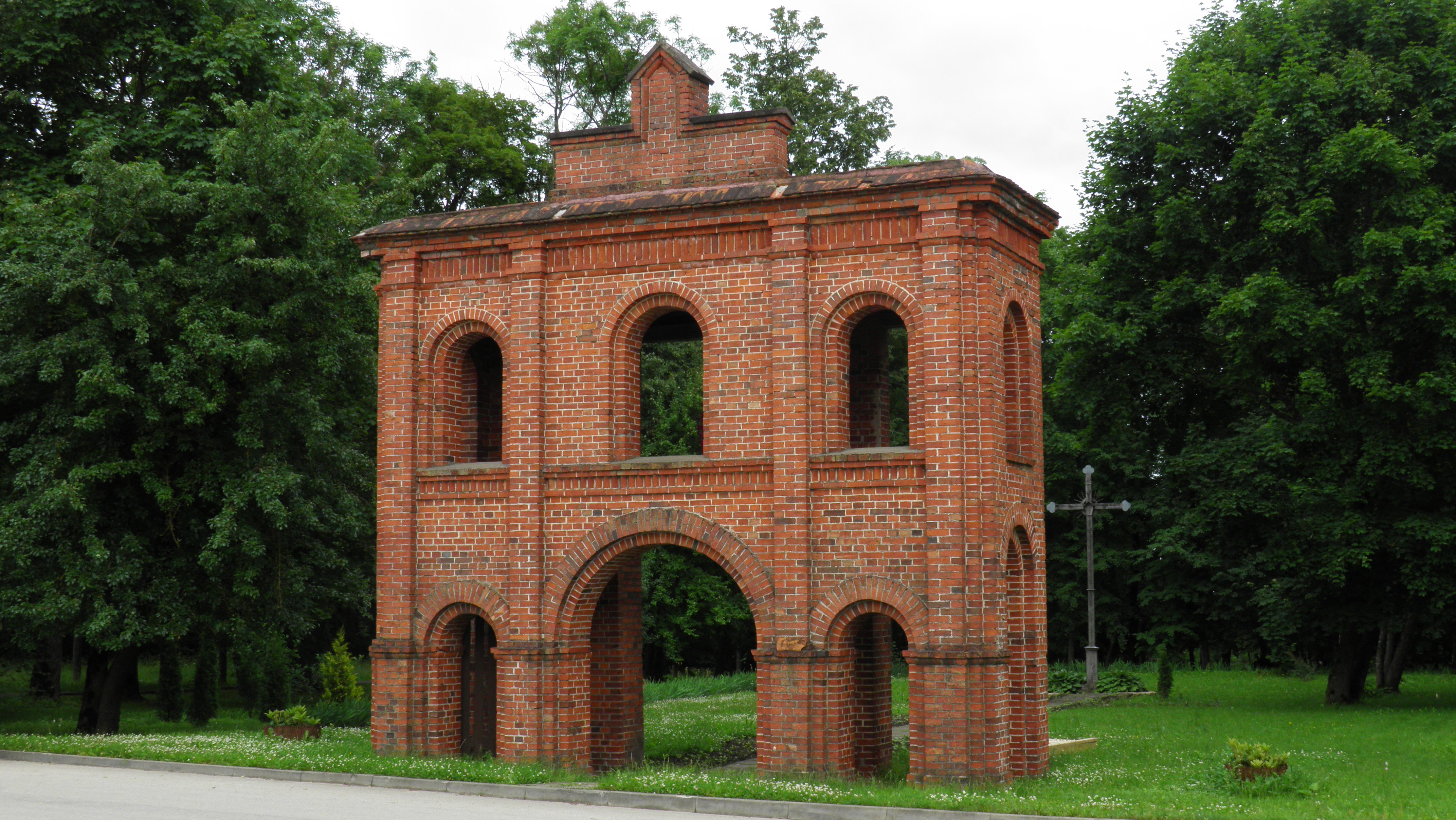 selu parks